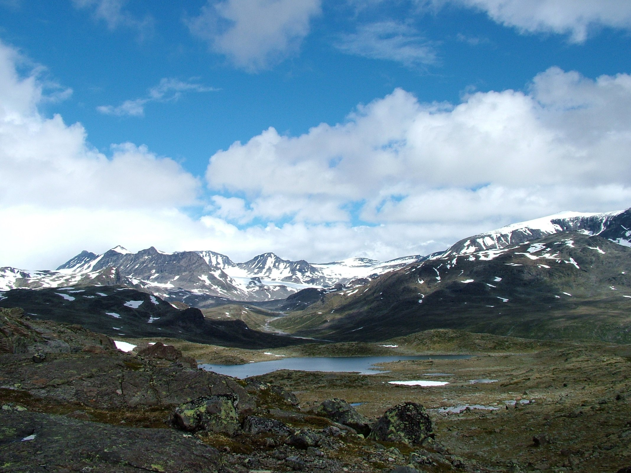 View on the mountains near Memurubu, Jotunheimen national Park